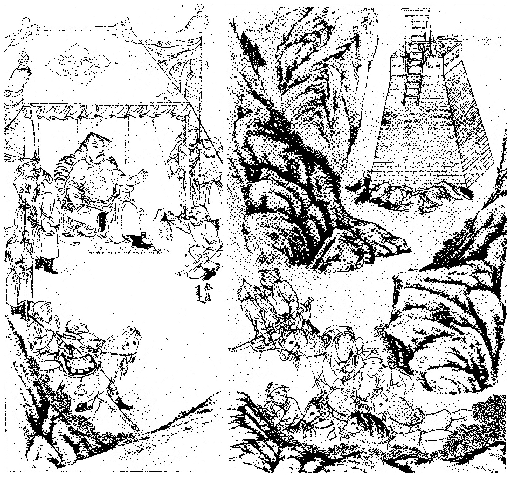 齋薩獻尼堪外蘭首